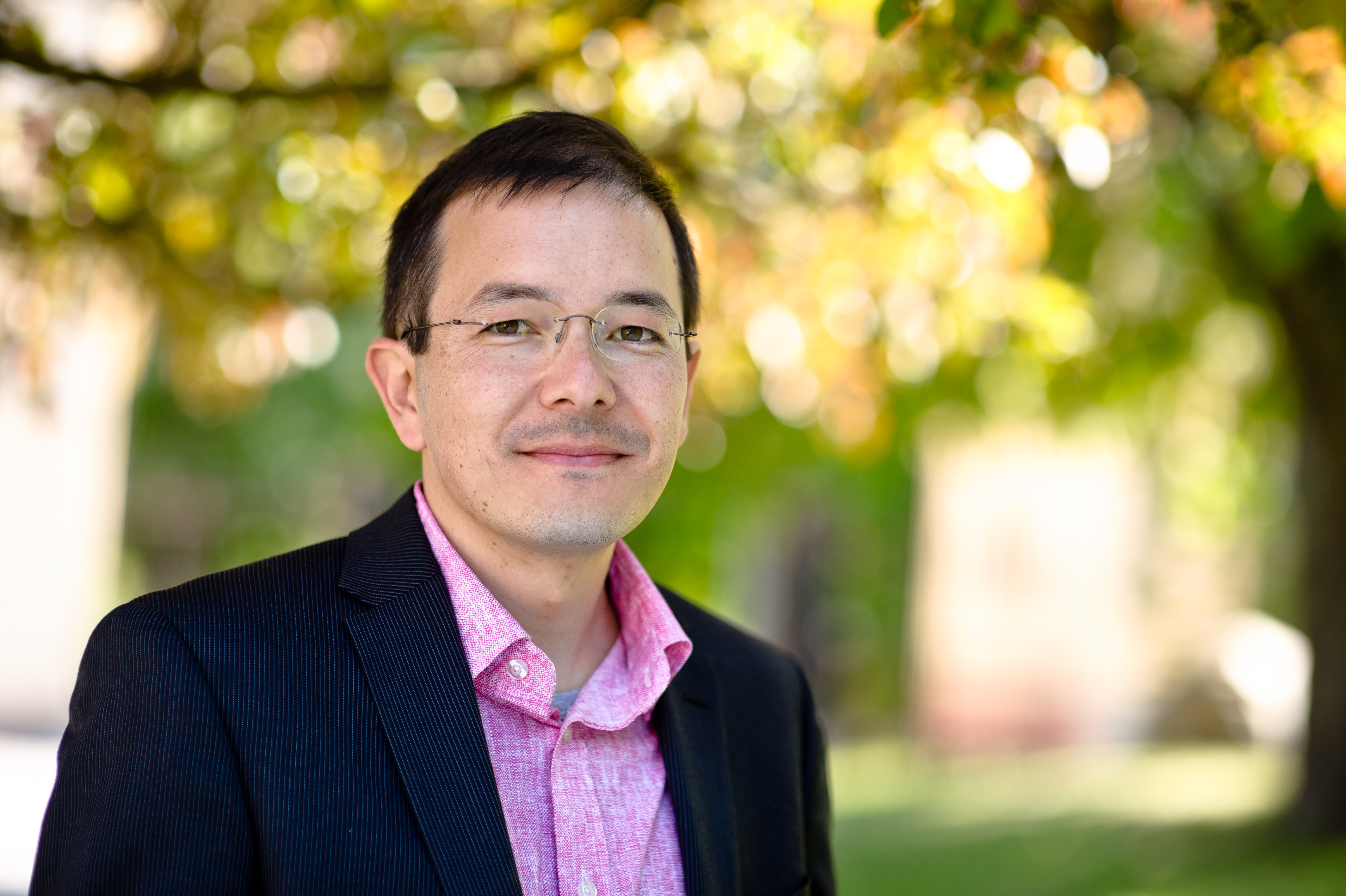 Author Shaun Tan.